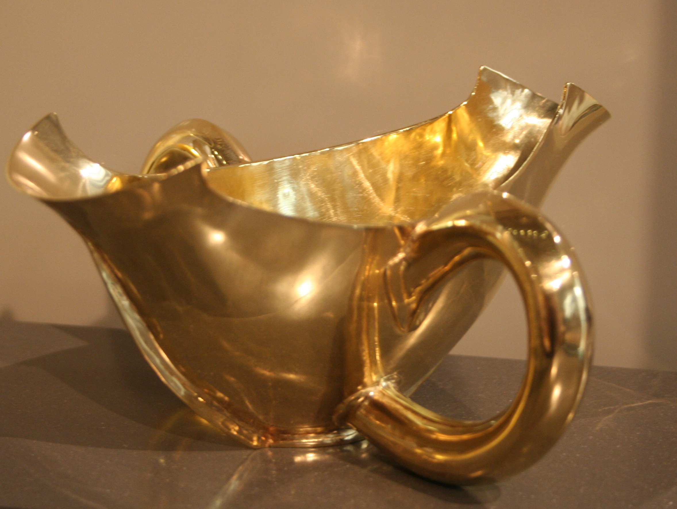 Museum für Vor- und Frühgeschichte (Museum of prehistory and early history), Berlin